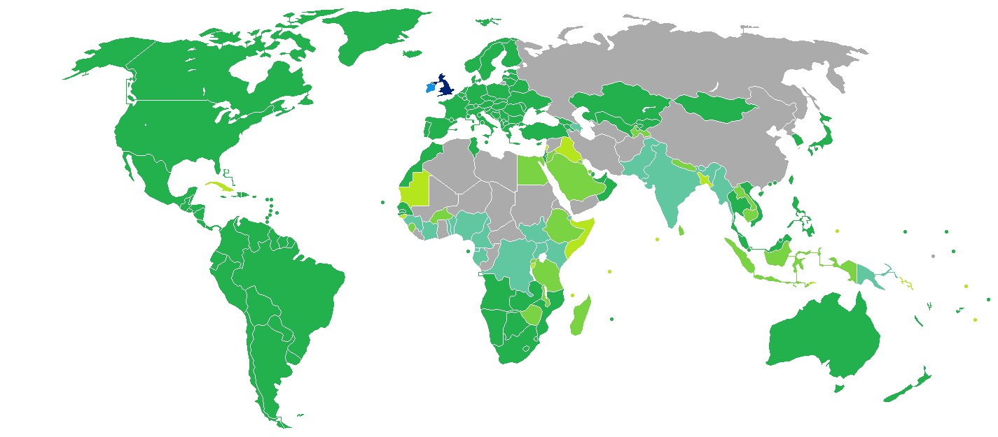 Visa requirements for British citizens United Kingdom Freedom of movement Visa not required Visa available both on arrival or online (eVisa) Visa on arrival eVisa Visa required prior to arrival